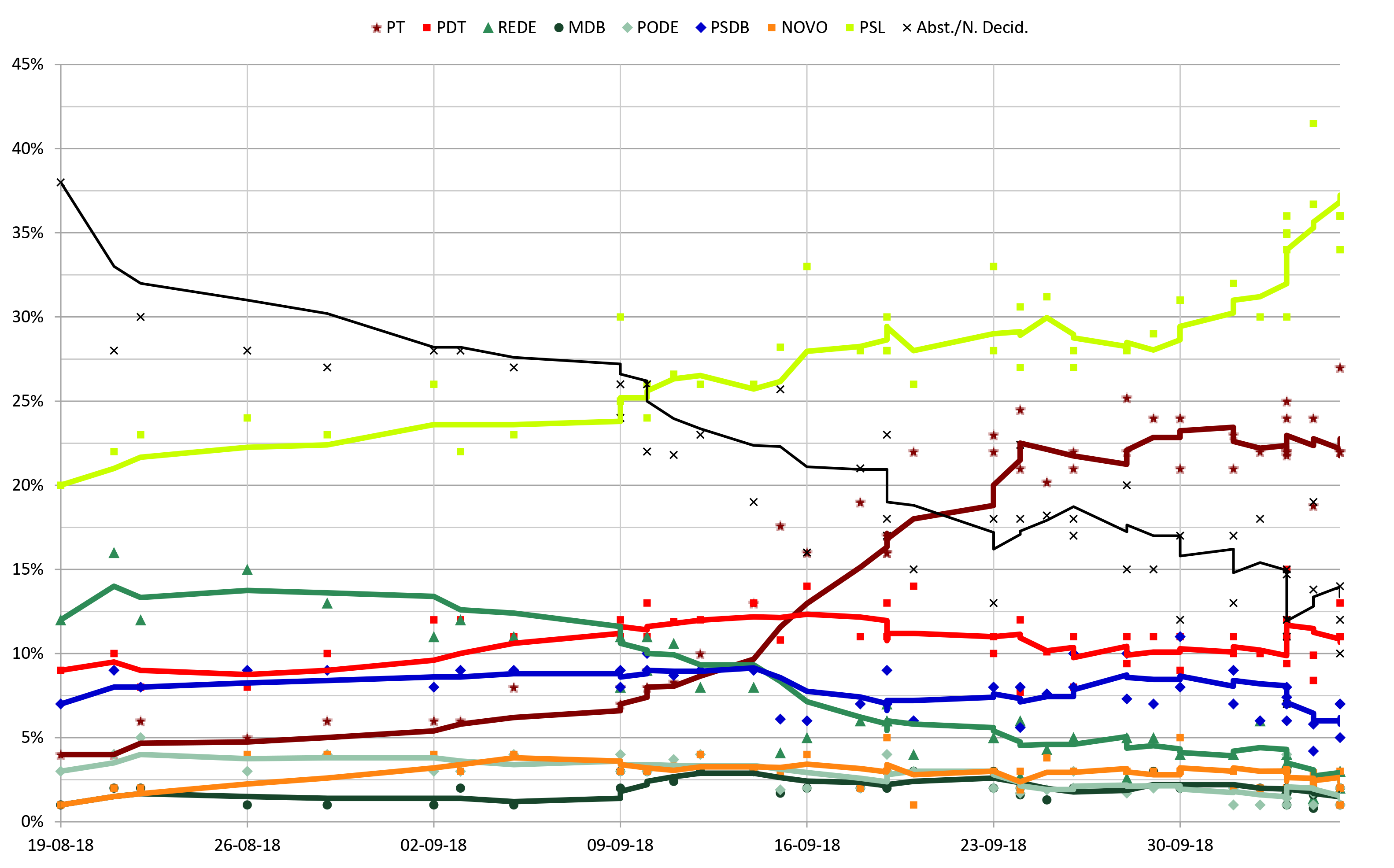 Graph showing 5 poll average trend lines of Brazilian opinion polls during the first round. Each line corresponds to a political party. Based on data at